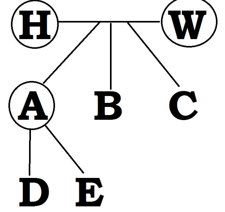 Another diagram illustrating the operation of inheritance per stirpes by representation.